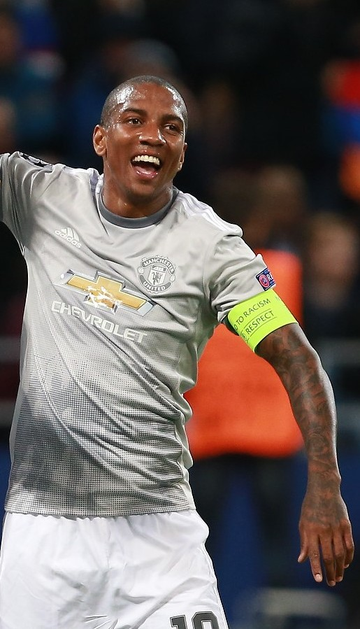 Romelu Lukaku, Ashley Young